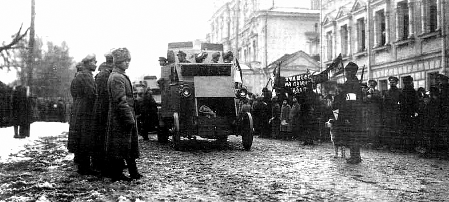 Tsarskoye Selo (Russia), Armored Vehicles of the 2nd armored separate battery goes on Quay Street of the City for disarming the Alexander Palace. Date March 24, 1917.